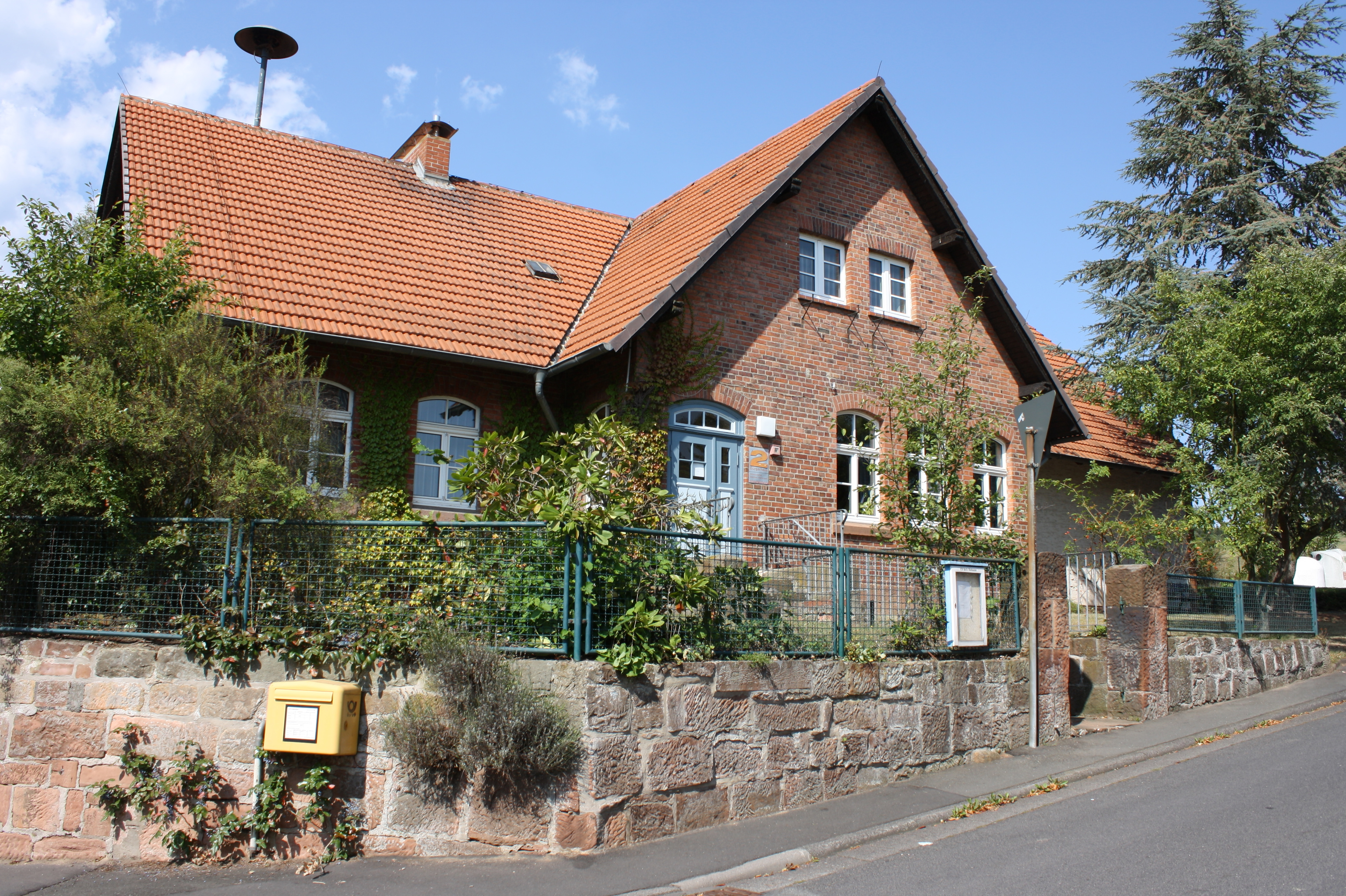 Community centre of Marburg-Ronhausen